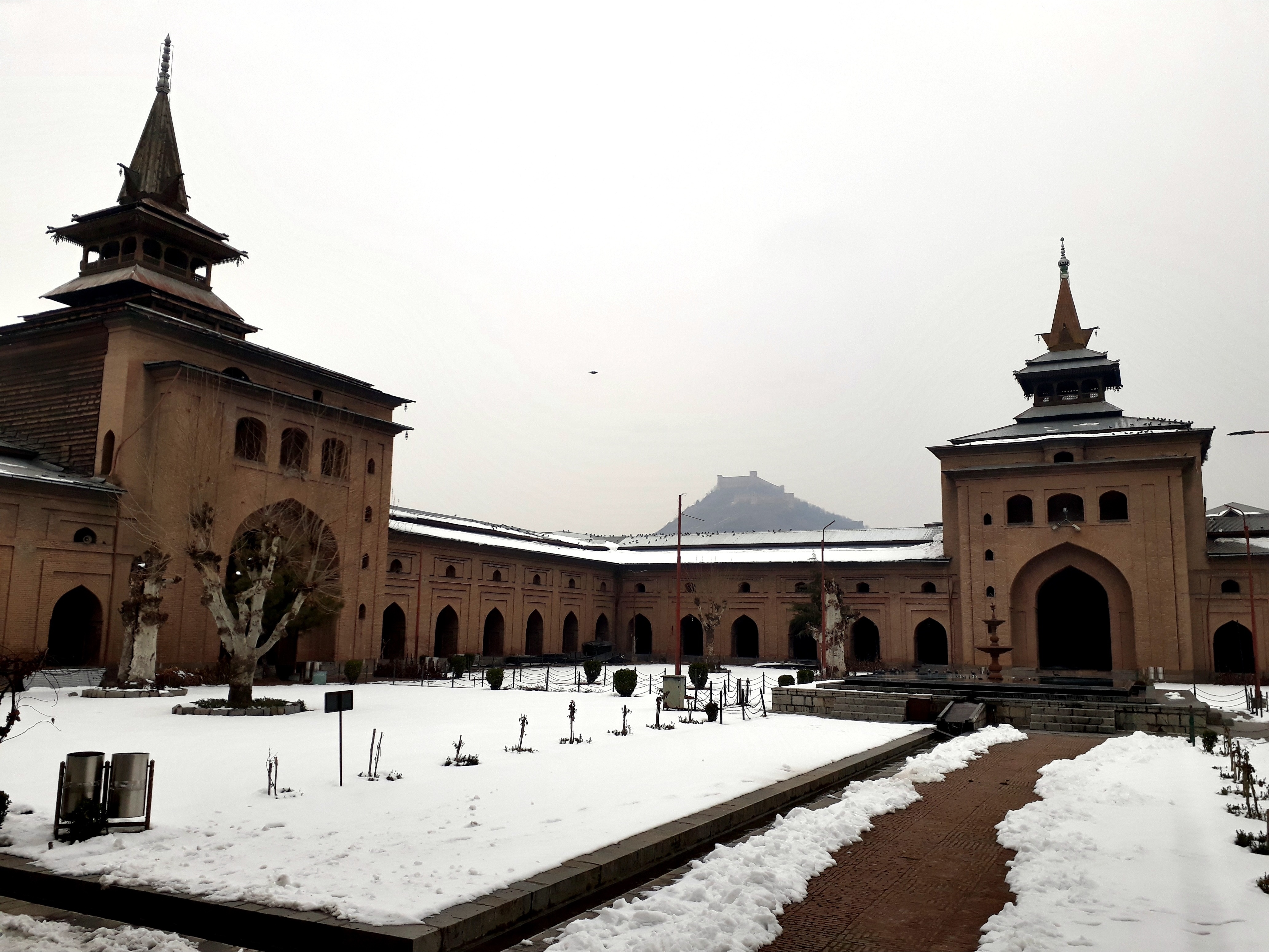 Snow-clad picture of the mosque.